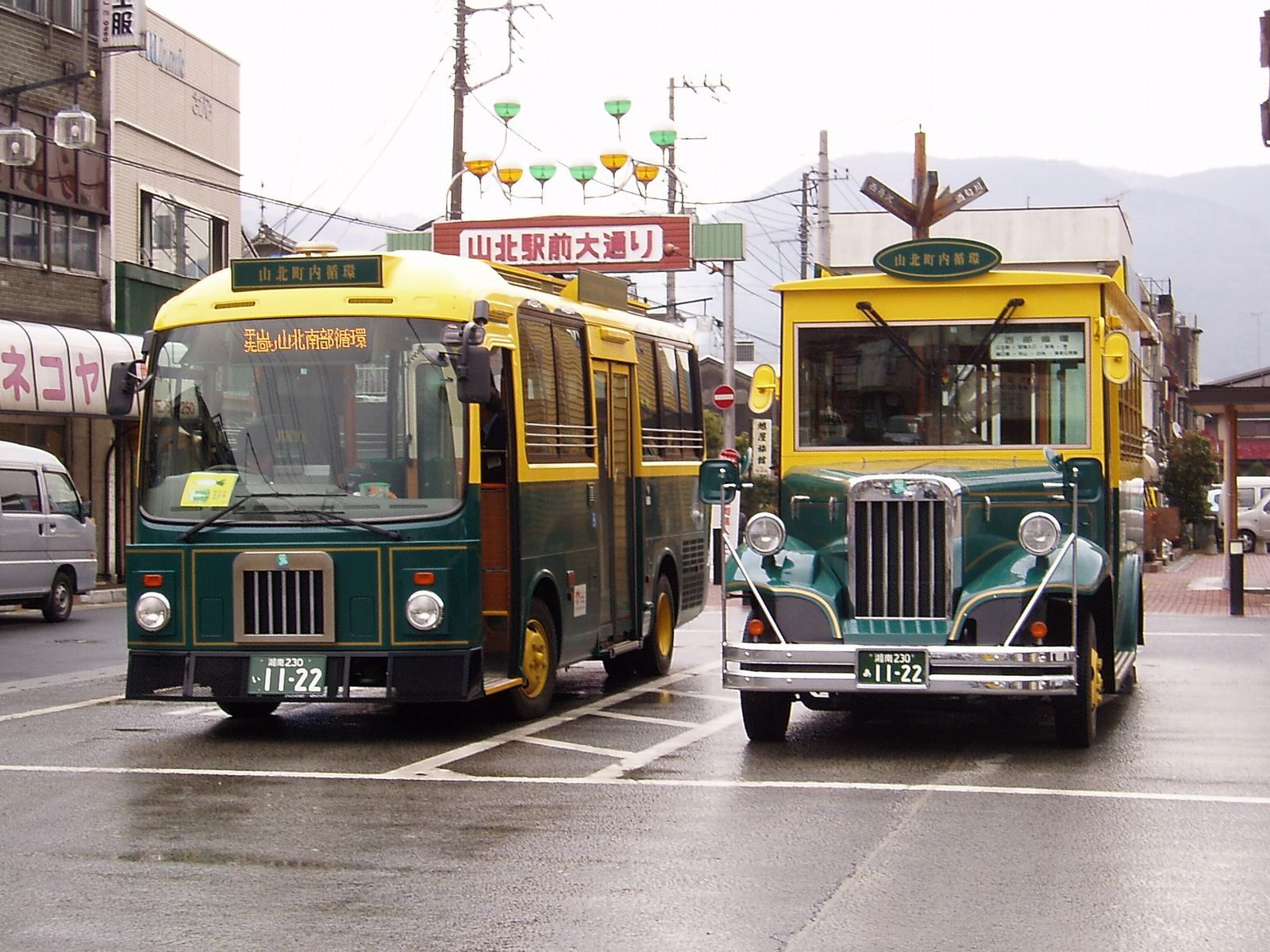 Hino Liesse PB-RX6JFAA (left) with au unidentified fleet (right) for Yamakita Town loop bus service operated by Fujikyu Shonan Bus, at Yamakita Station